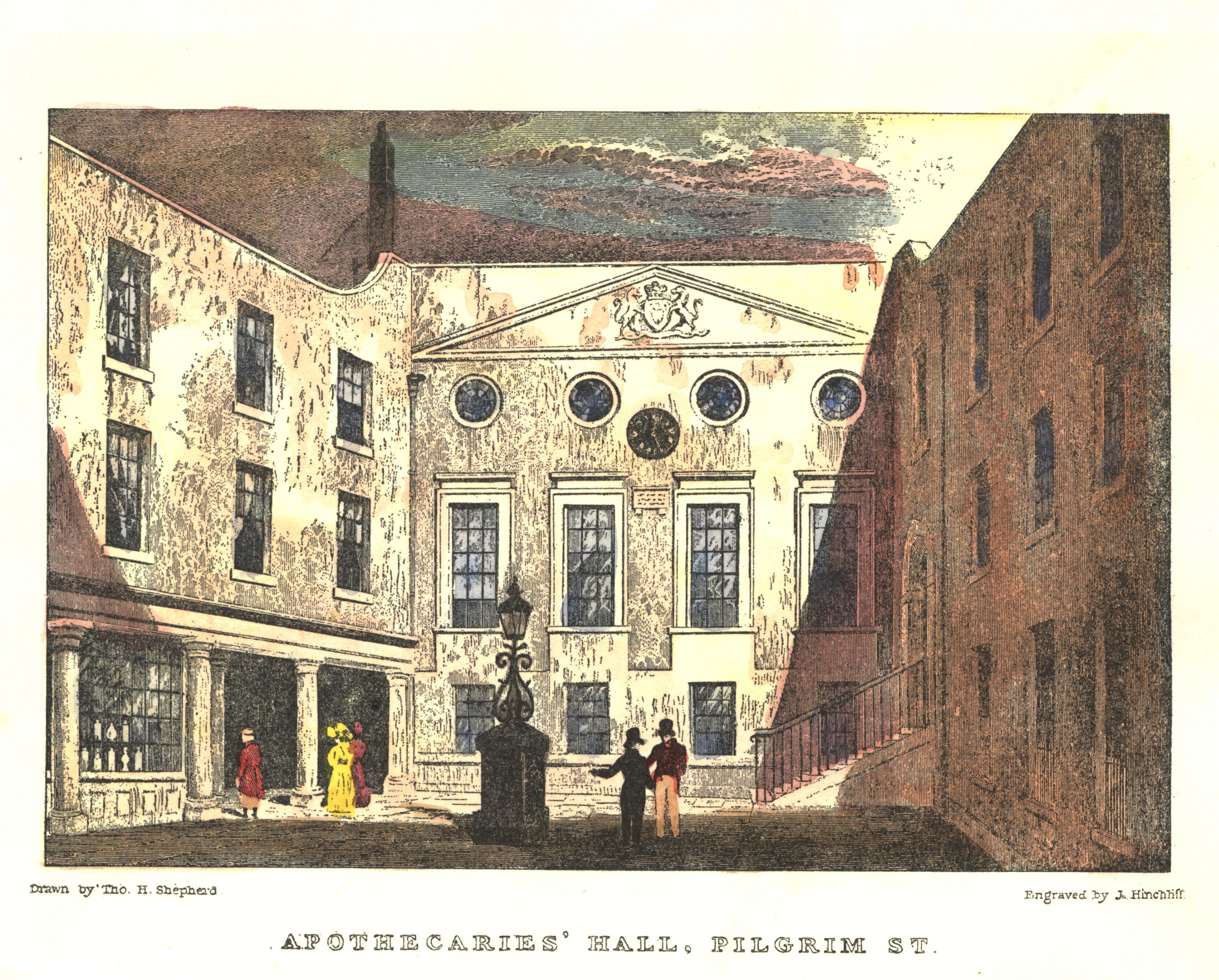 Author(s): Hinchliff, John James, 1805-1875, engraver Contributor(s): Shepherd, Thomas H. (Thomas Hosmer), artist Publication: [London : s.n., 1850?] Language(s): English Format: Still image Genre(s): Pictorial Works Abstract: View of the building's façade and courtyard. Extent: 1 print : 14 x 19 cm. Provenance: Gift; William H. Helfand; 2003; 03-20. Technique: engraving, hand color NLM Unique ID: 101461779 NLM Image ID: C05667 Permanent Link